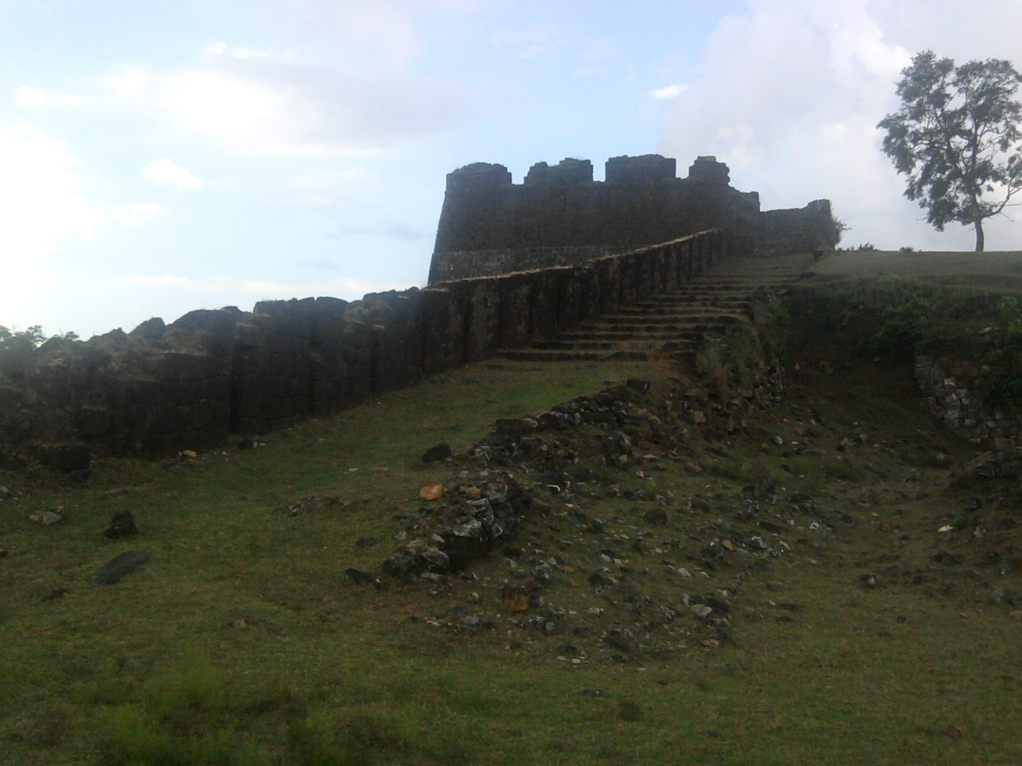 Shivappanaika Fort, Nagara